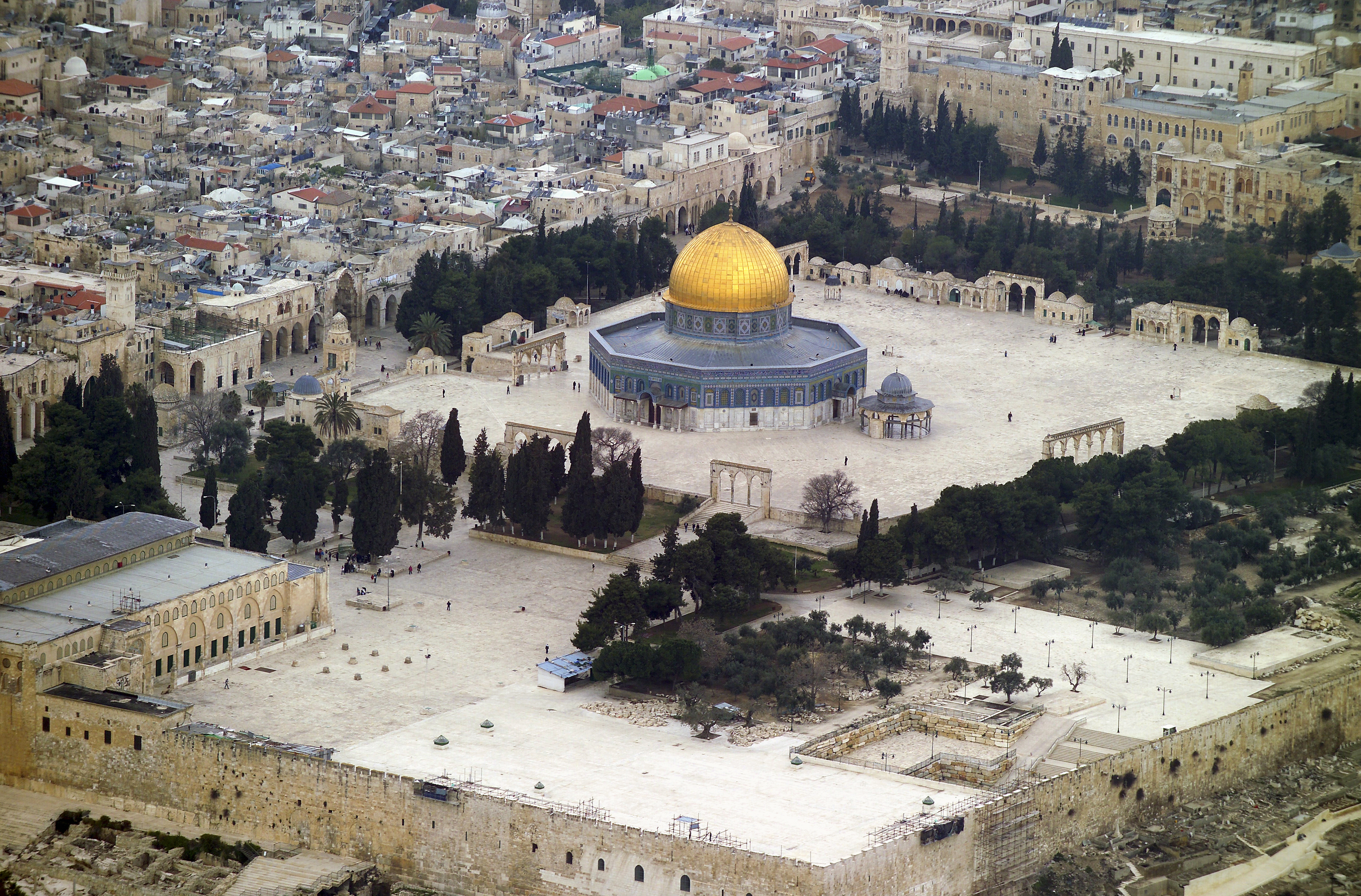 Aerial views of the Temple Mount and parts of the Old City of Jerusalem (2007)